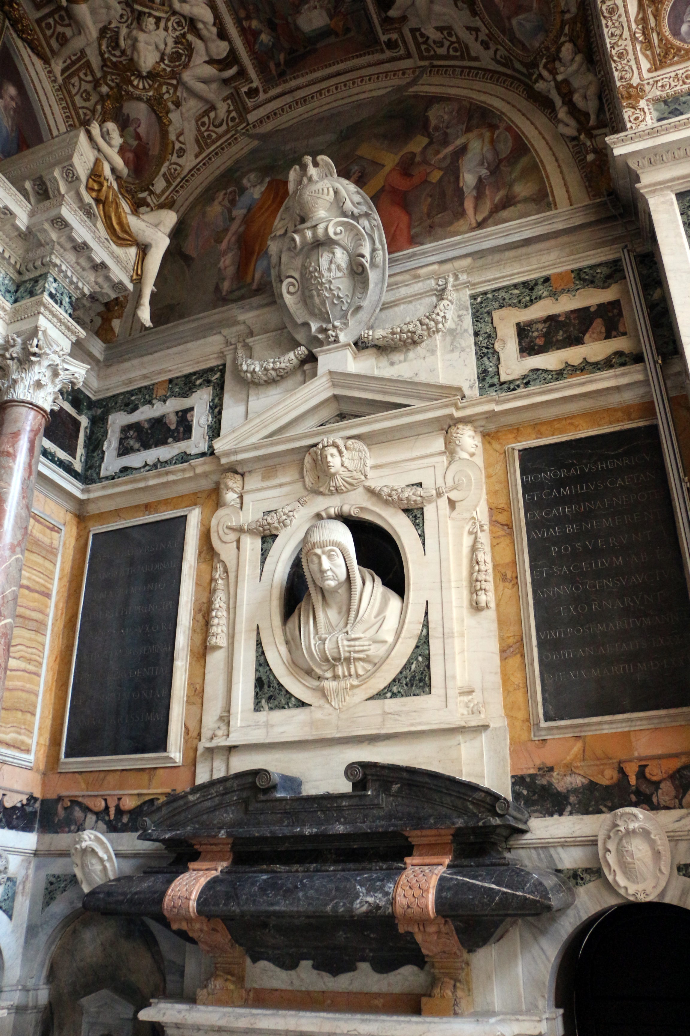 Trinità dei Monti (Rome) - interior